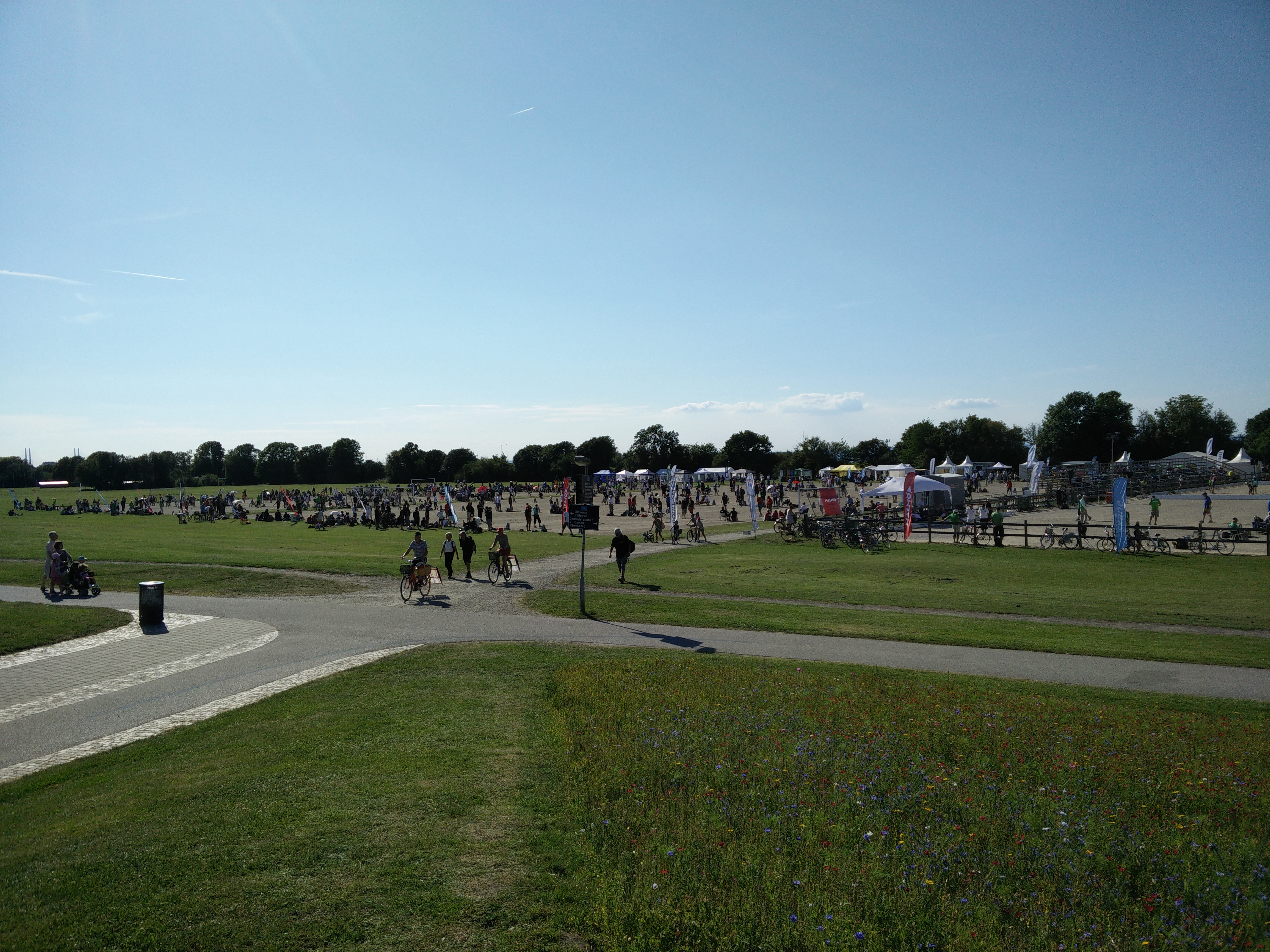 Swedish pétanque championships 2016.